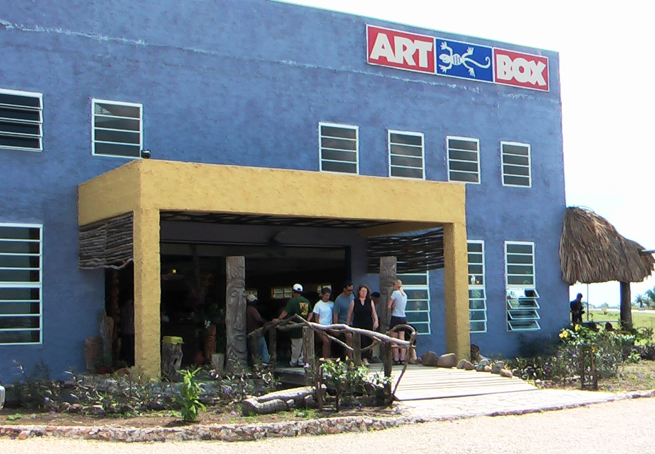 Artbox at Belmopan